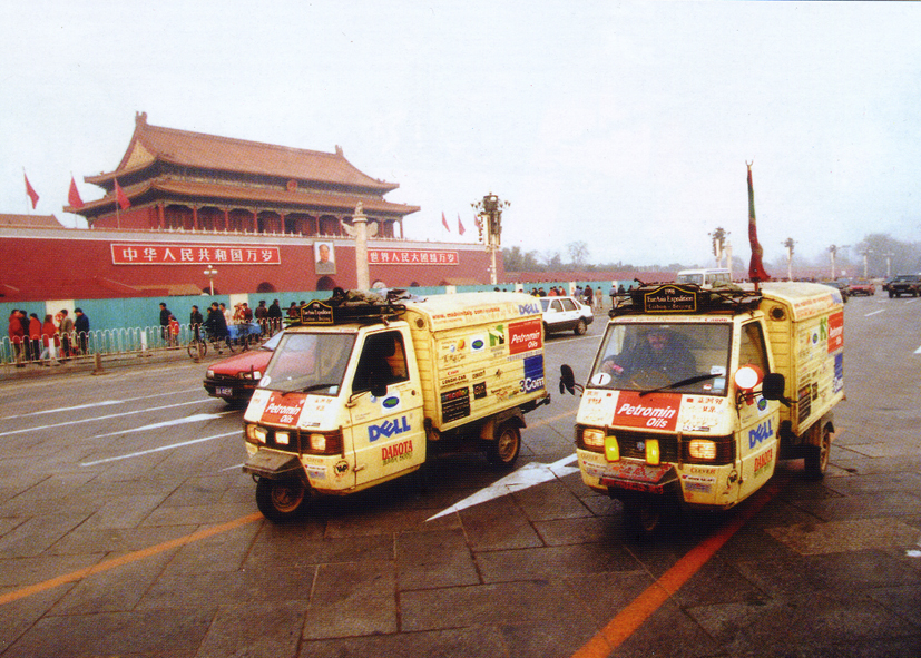 Giorgio Martino and paolo Brovelli (EurAsia Expedition 98) arrive in Beijing - Tien An Men square